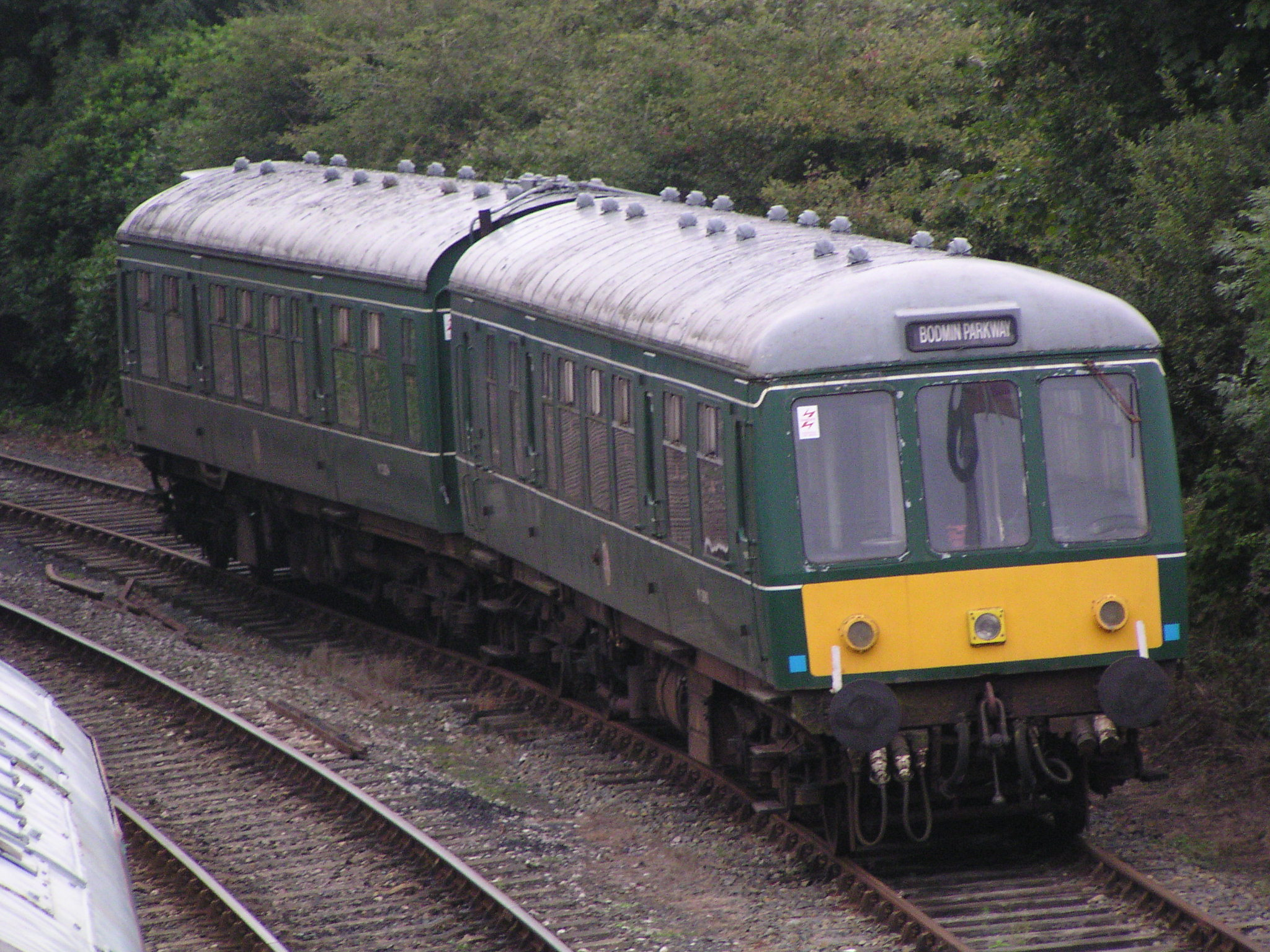 BR Class 108, nos. 50980 and 52054, at Bodmin on 28th August 2003.